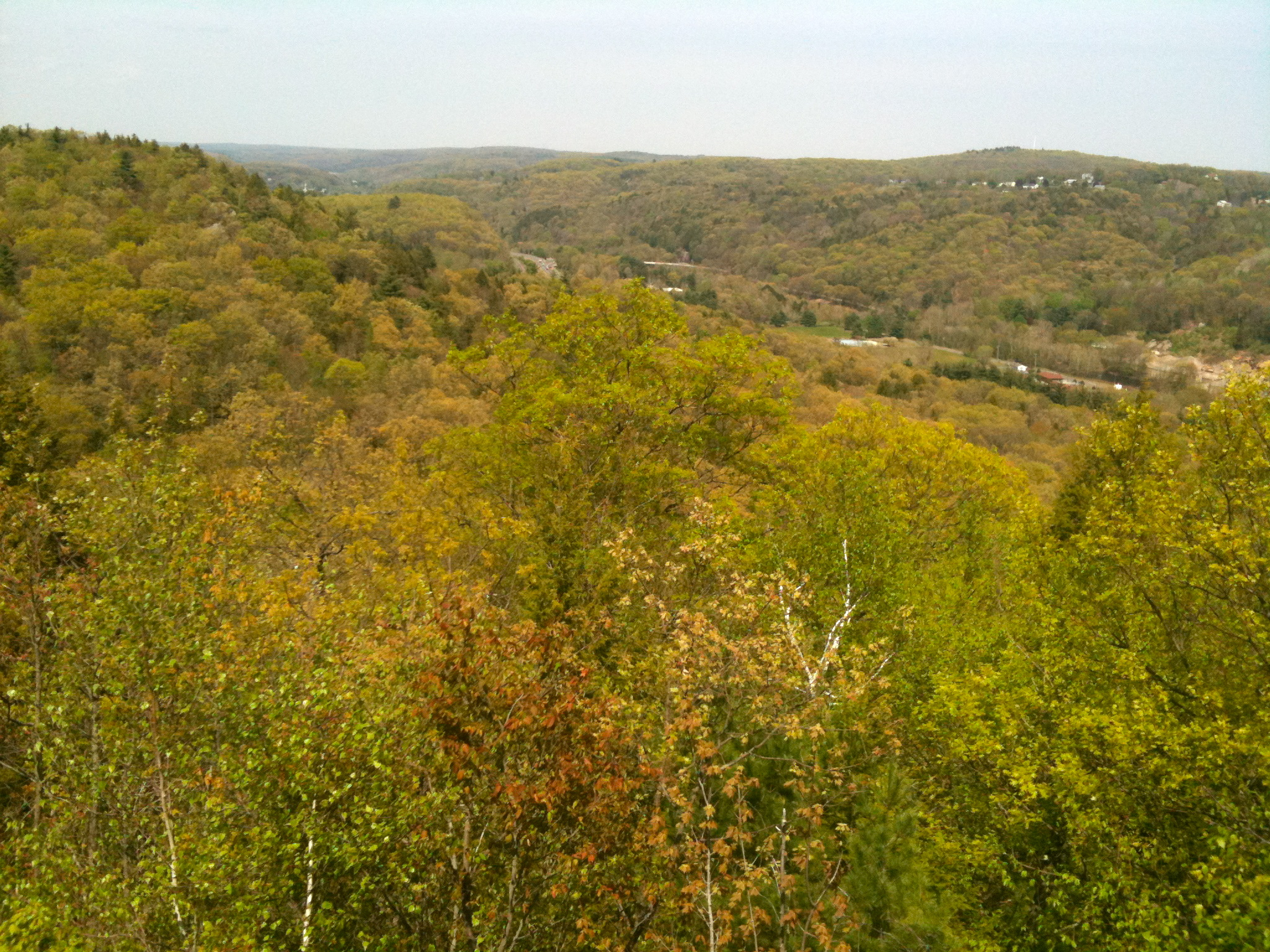 Jericho Blue-Blazed Trail. View northeast from Crane's Lookout.